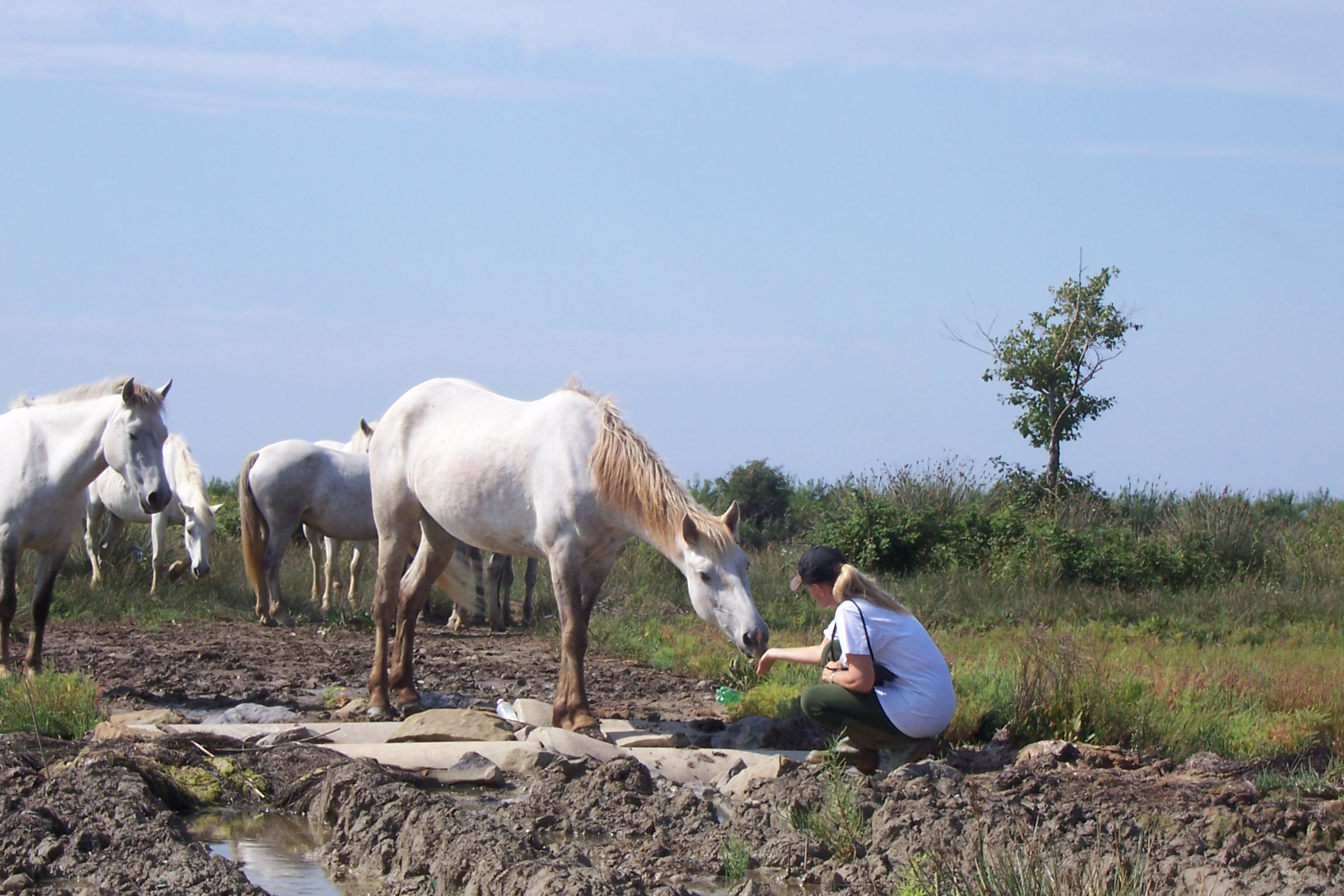 An expert horsewoman approaching a small herd of Camargue. Location: Isola della Cona, Staranzano, Italy. Step 2: Contact is achieved. See also Image:Camargue_naturally_approached_1.jpg